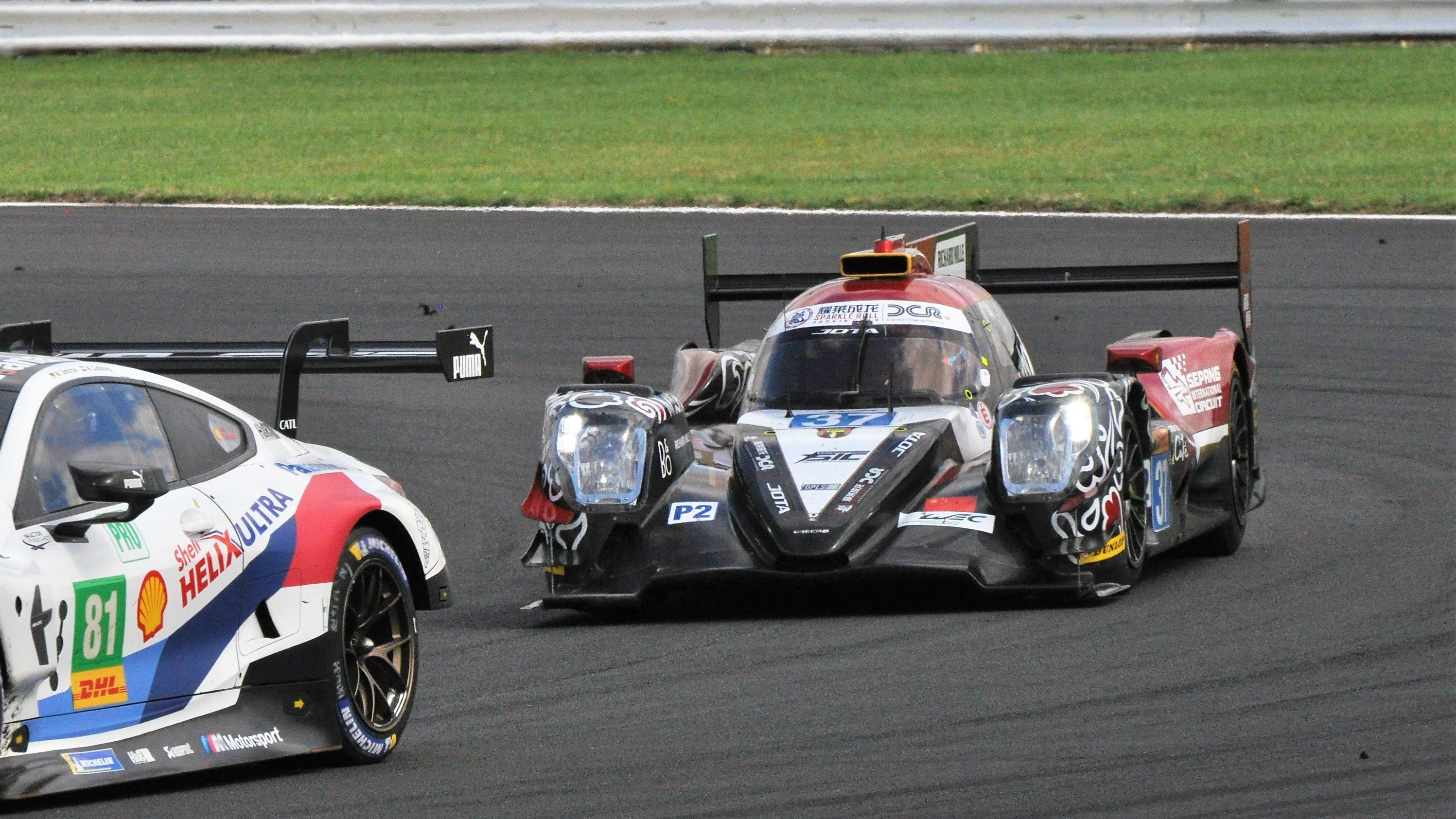 Malaysian driver Jazeman Jaafar, in the number 37 Jackie Chan DC Racing-entered Oreca 07 car, follows the number 81 BMW M8 GTE through Luffield corner during the 2018 6 Hours of Silverstone race. Jaafar and his compatriot co-drivers, Nabil Jeffri and Weiron Tan, finished second in the LMP2 class and fifth overall.